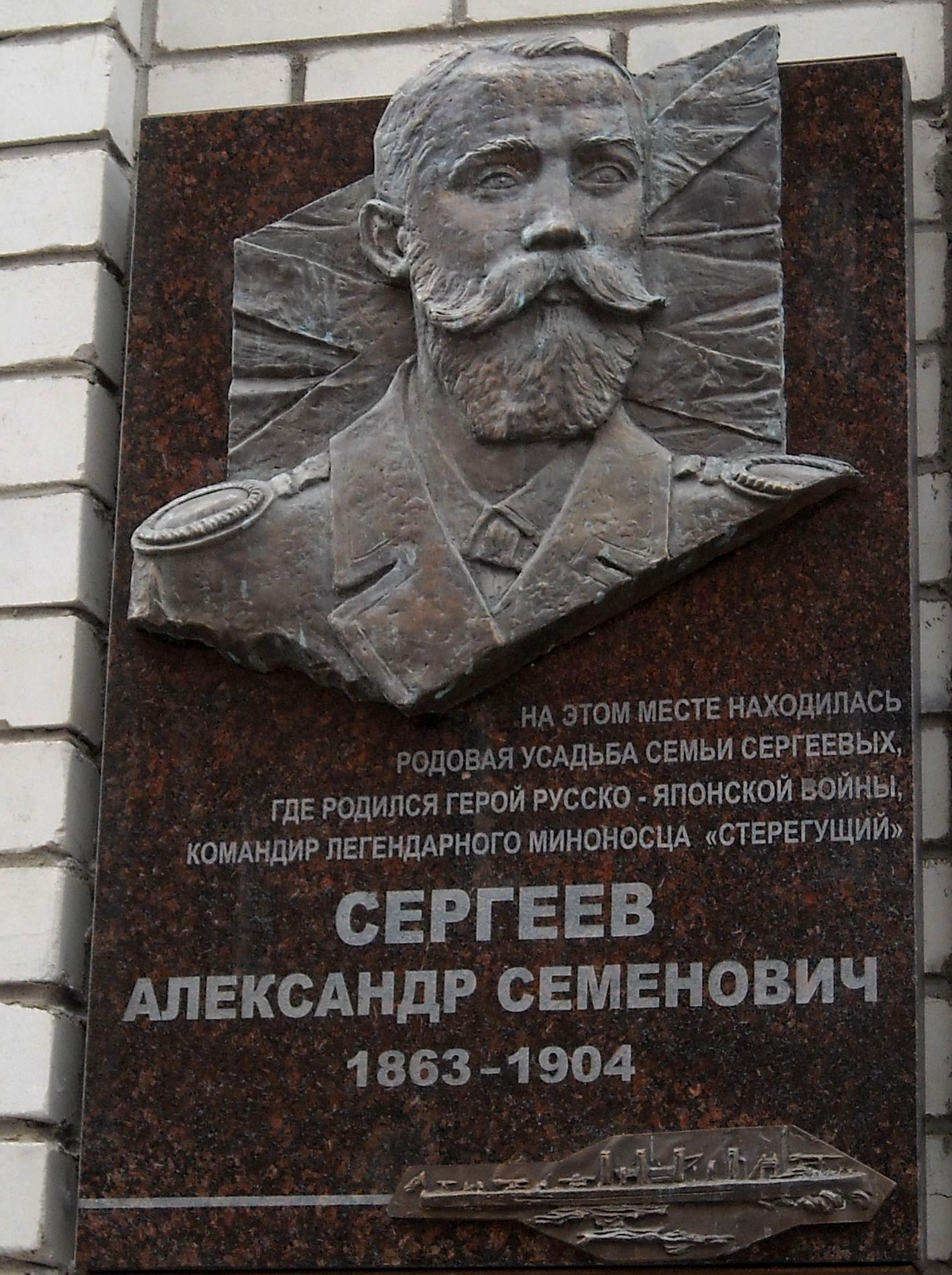 Commemorative plaque in Kursk to Sergeev A.S., captain of "Steregushchiy"